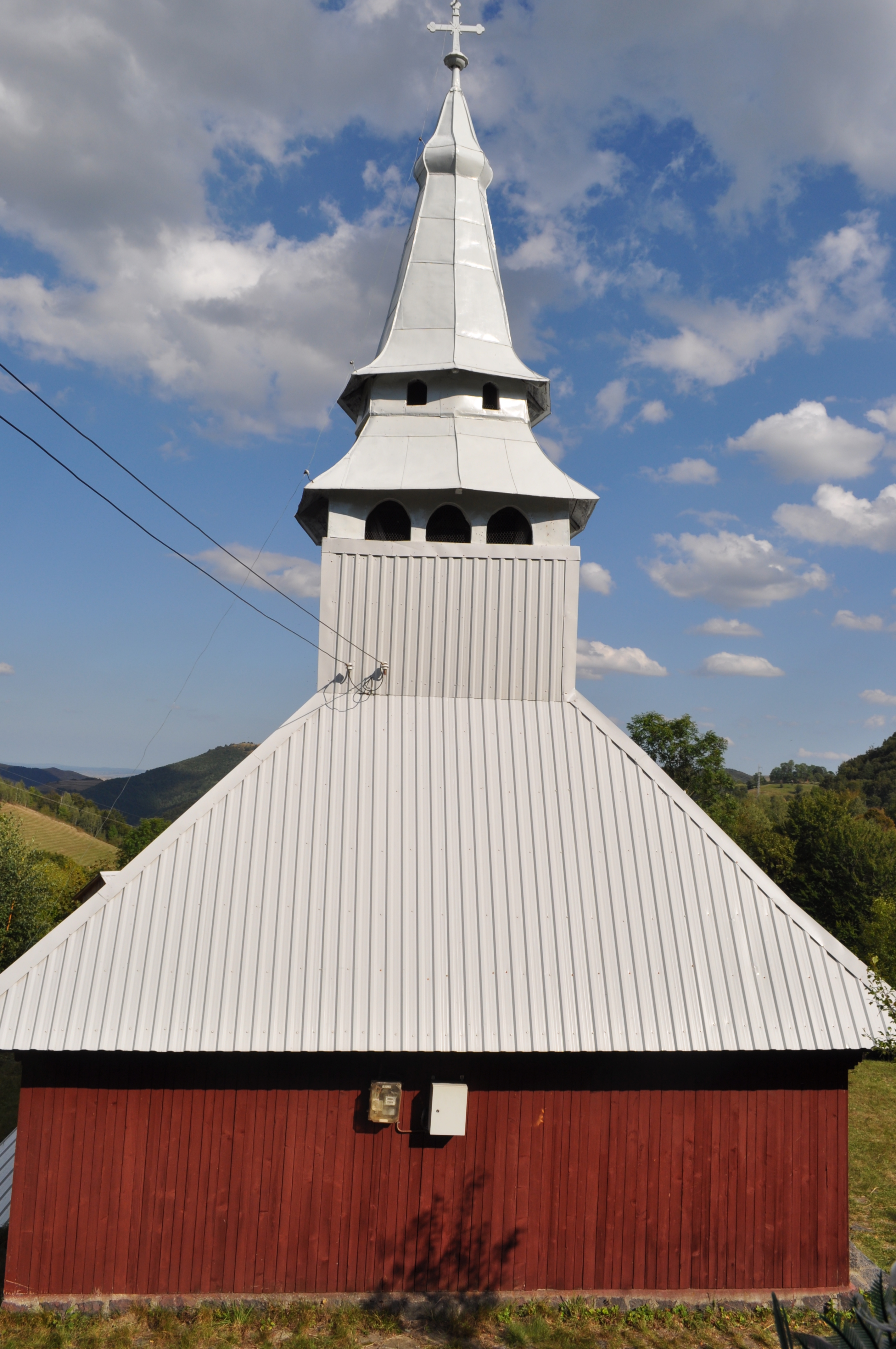 The wooden church in Tranișu, Cluj county, Romania